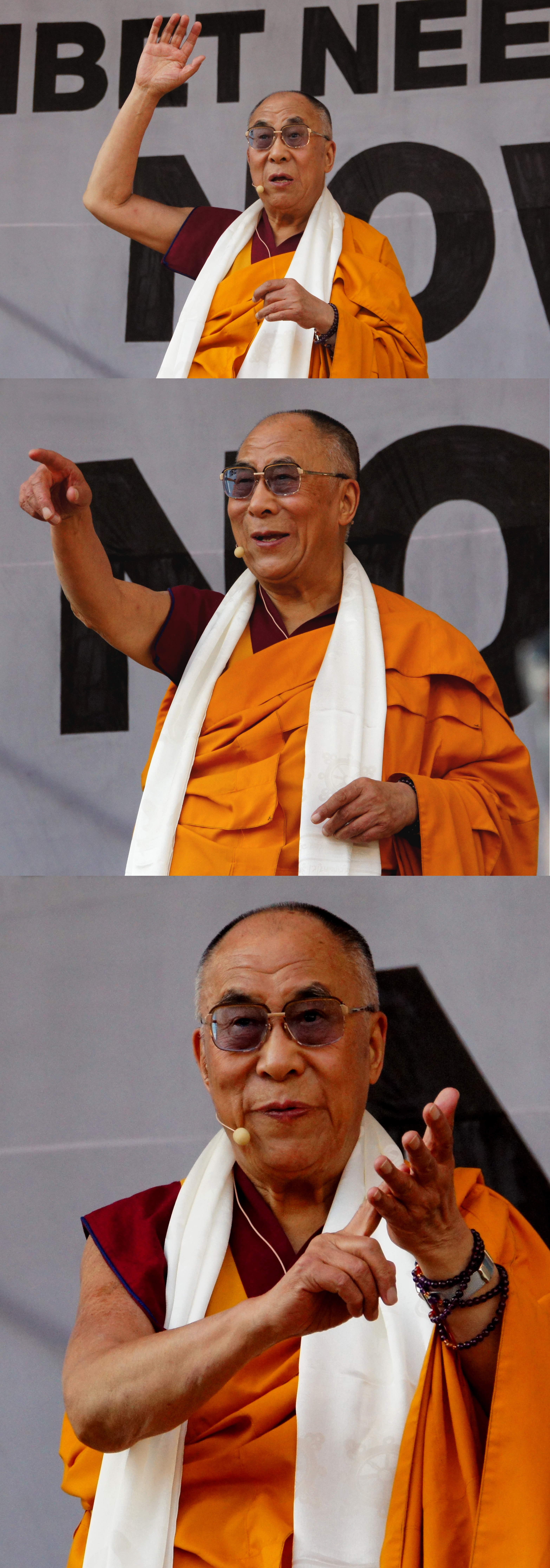 The 14th Dalai Lama holding a speach in Vienna, Austria. Please note that, to some extent, His Holiness is kind-of-a_showmaster, as well. One cannot but love him. ;))